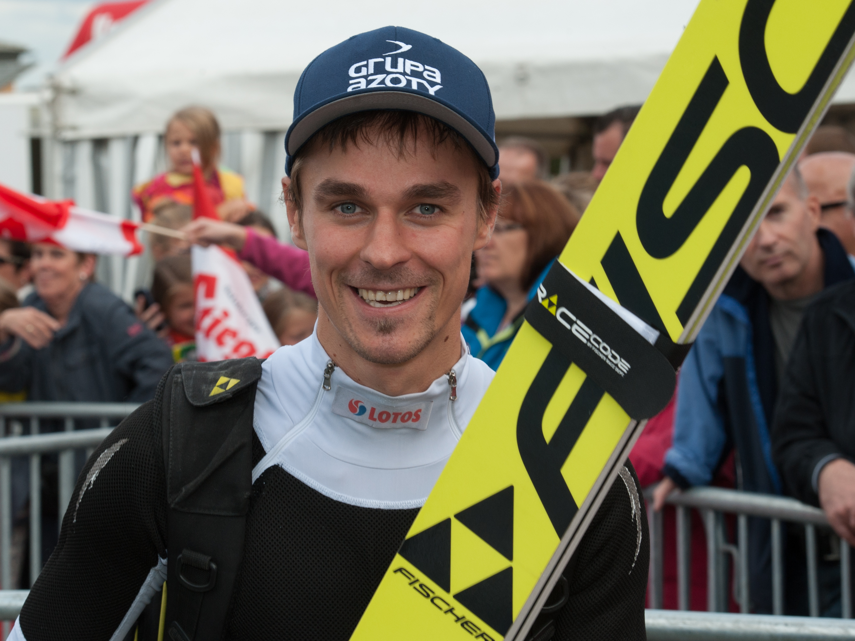 Fis Ski Jumping Summer Grand Prix in Hinzenbach, Upper Austria, 2015-09-27: Piotr Żyła